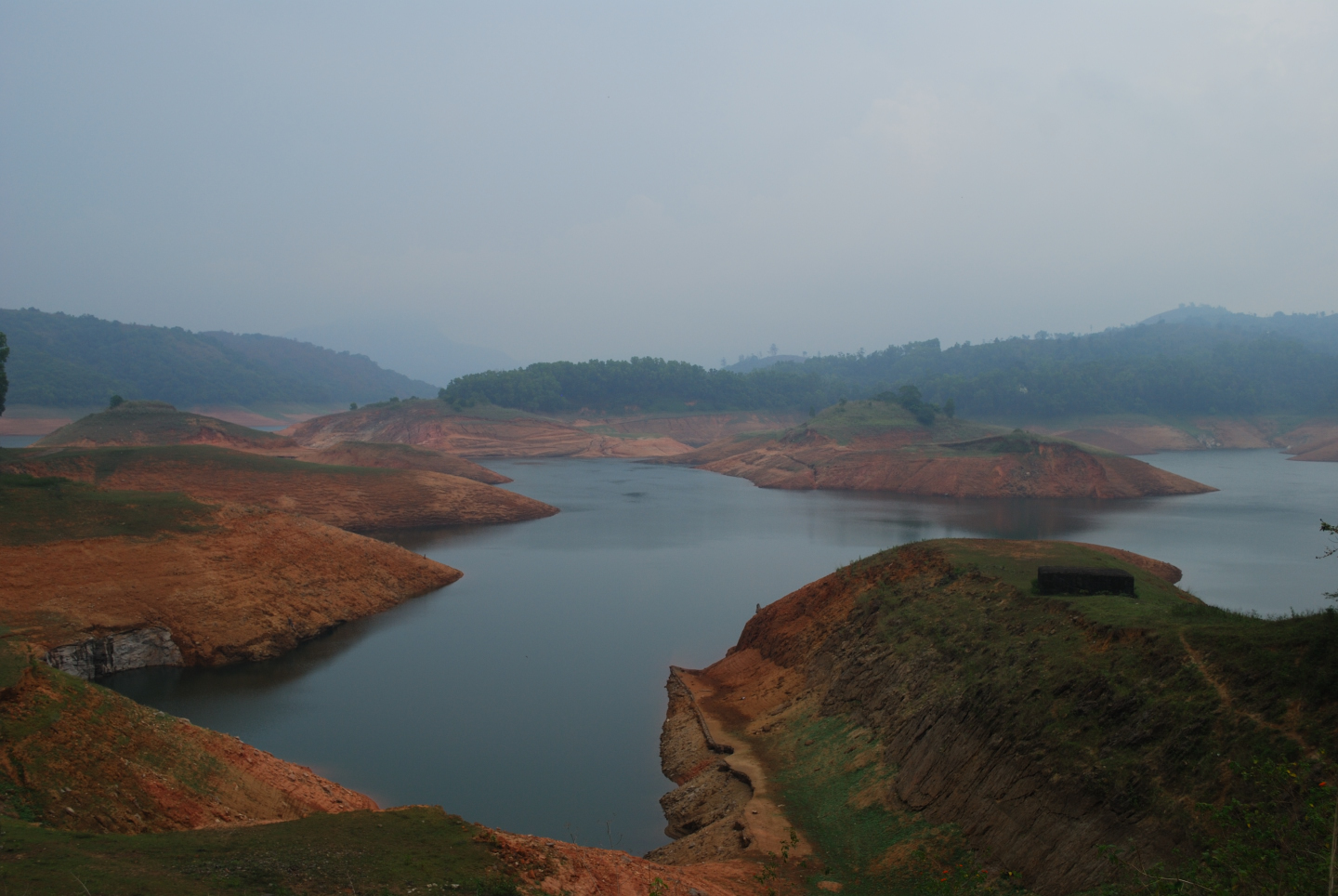 Kulamavu Dam is one of the three dam reserviors of Idukki Dam project